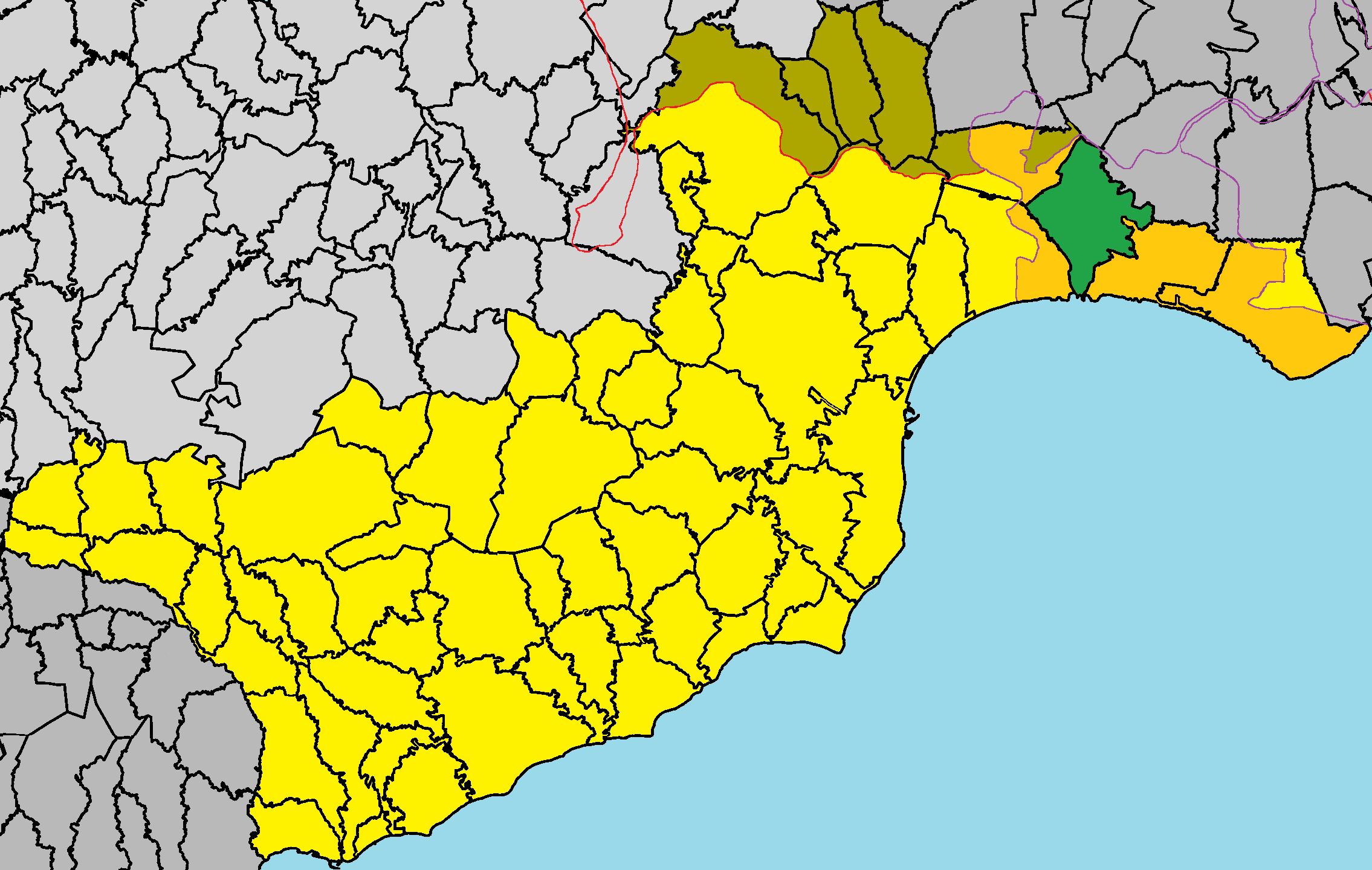 Xylotymbou in Larnaca District.